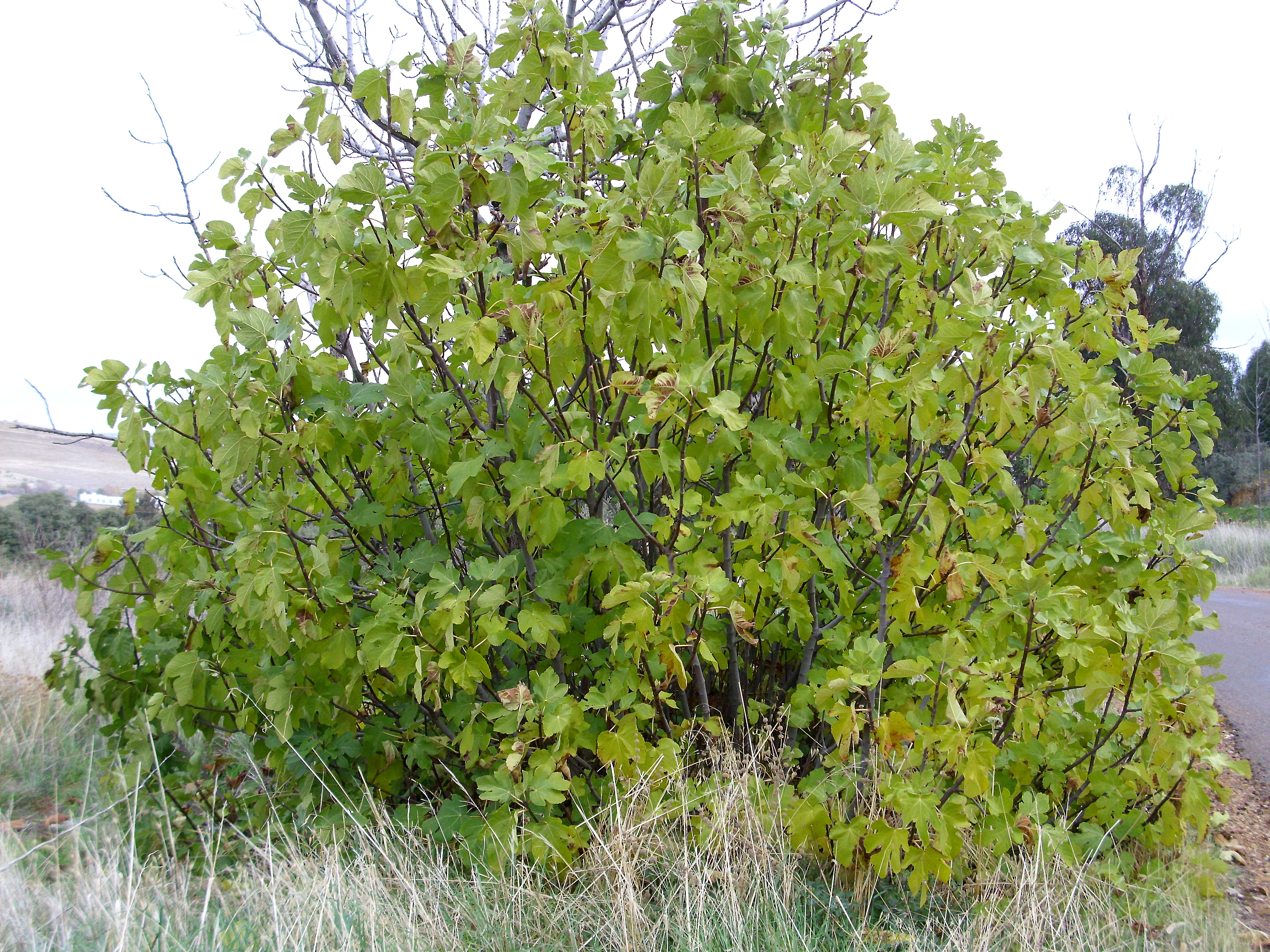 Ficus carica habit, Dehesa Boyal de Puertollano, Spain